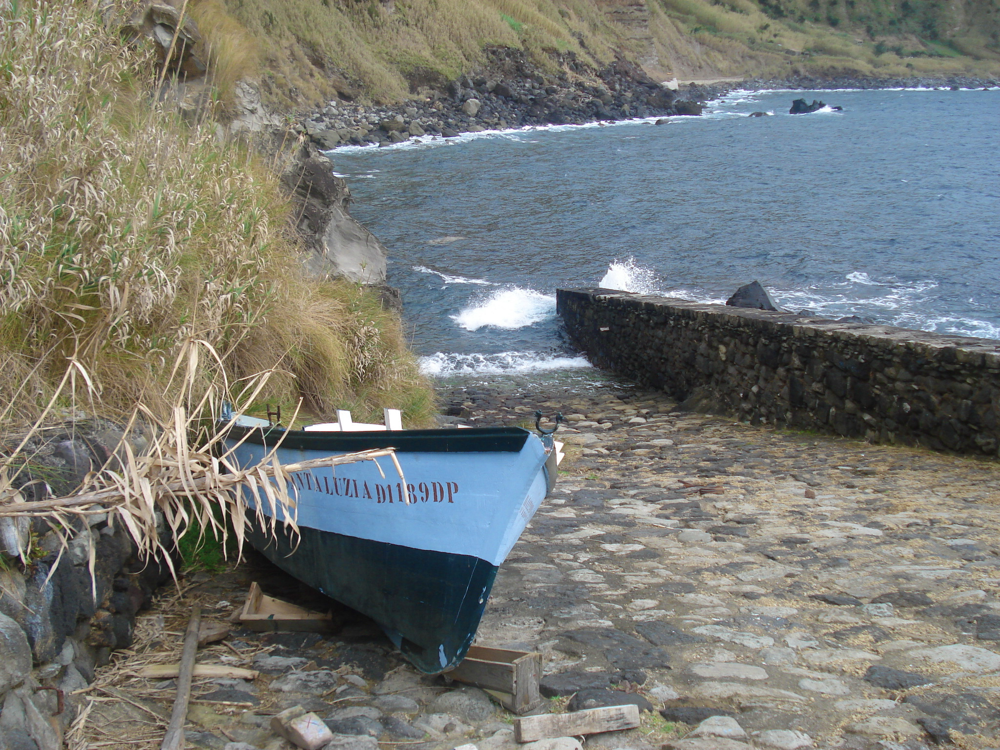 The old port of Feteiras, with the small fishing boats aligned along its ramp, civil parsish of Feteiras, municipality of Ponta Delgada (Azores), Portugal